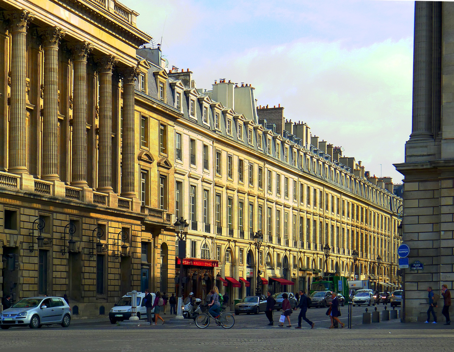 Royale street - Paris